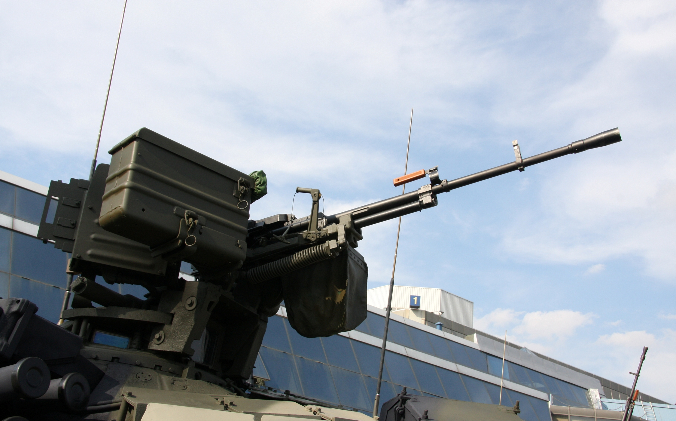 The Ministry of Defence of Russia exposition in open access. On display are among others a T-90S and a T-80U tank.